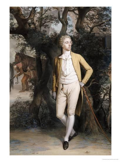 Portrait of Arthur Hill